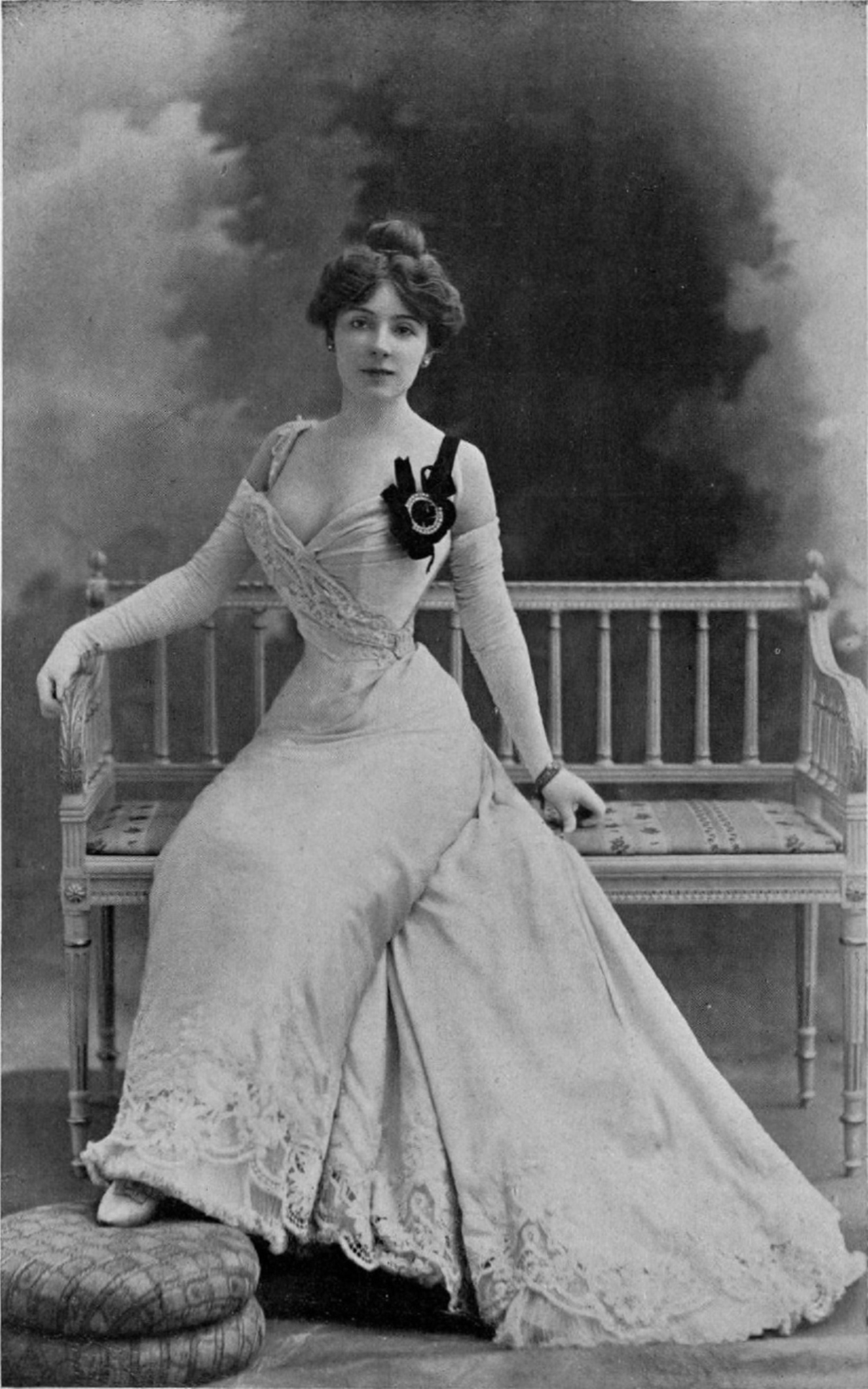 Amélie Diéterle by photographer Léopold-Émile Reutlinger. Amélie Diéterle is a French actress born in Strasbourg on 20 February 1871 and died in Cannes on 20 January 1941. Amélie Diéterle plays mainly at the Théâtre des Variétés in Paris during the Belle Époque. She was represented here in the comedy : Éducation de prince by Maurice Donnay. The role that Amélie Diéterle interprets is that of Mariette Printemps.